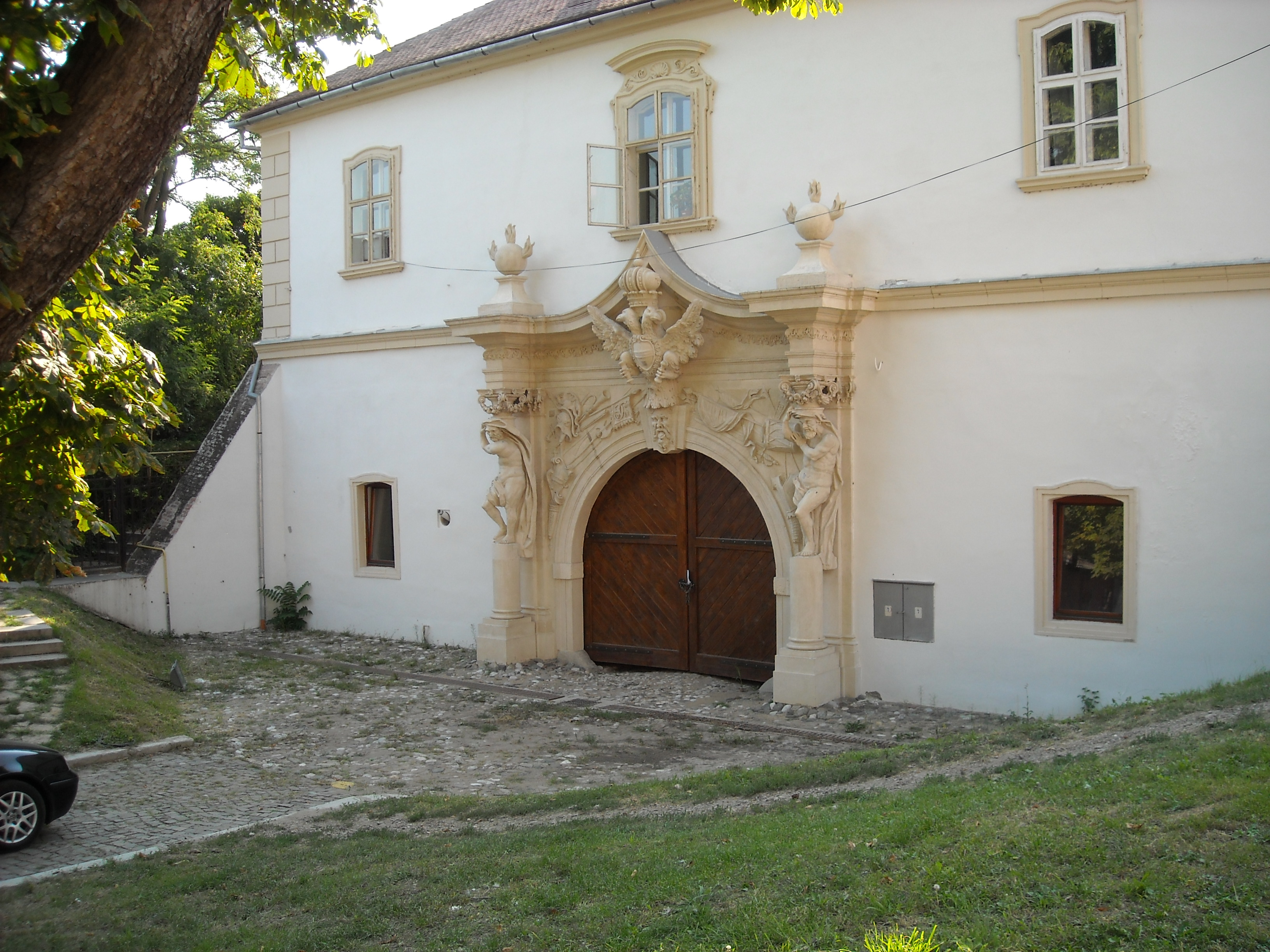 the gate no. 4 of the Alba Iulia (Gyulafehérvár) castle